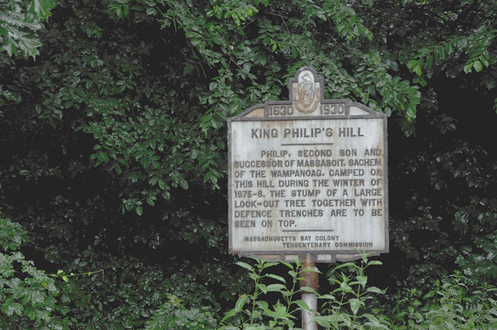 Historic marker near King Philip's Hill in Northfield, Massachusetts.